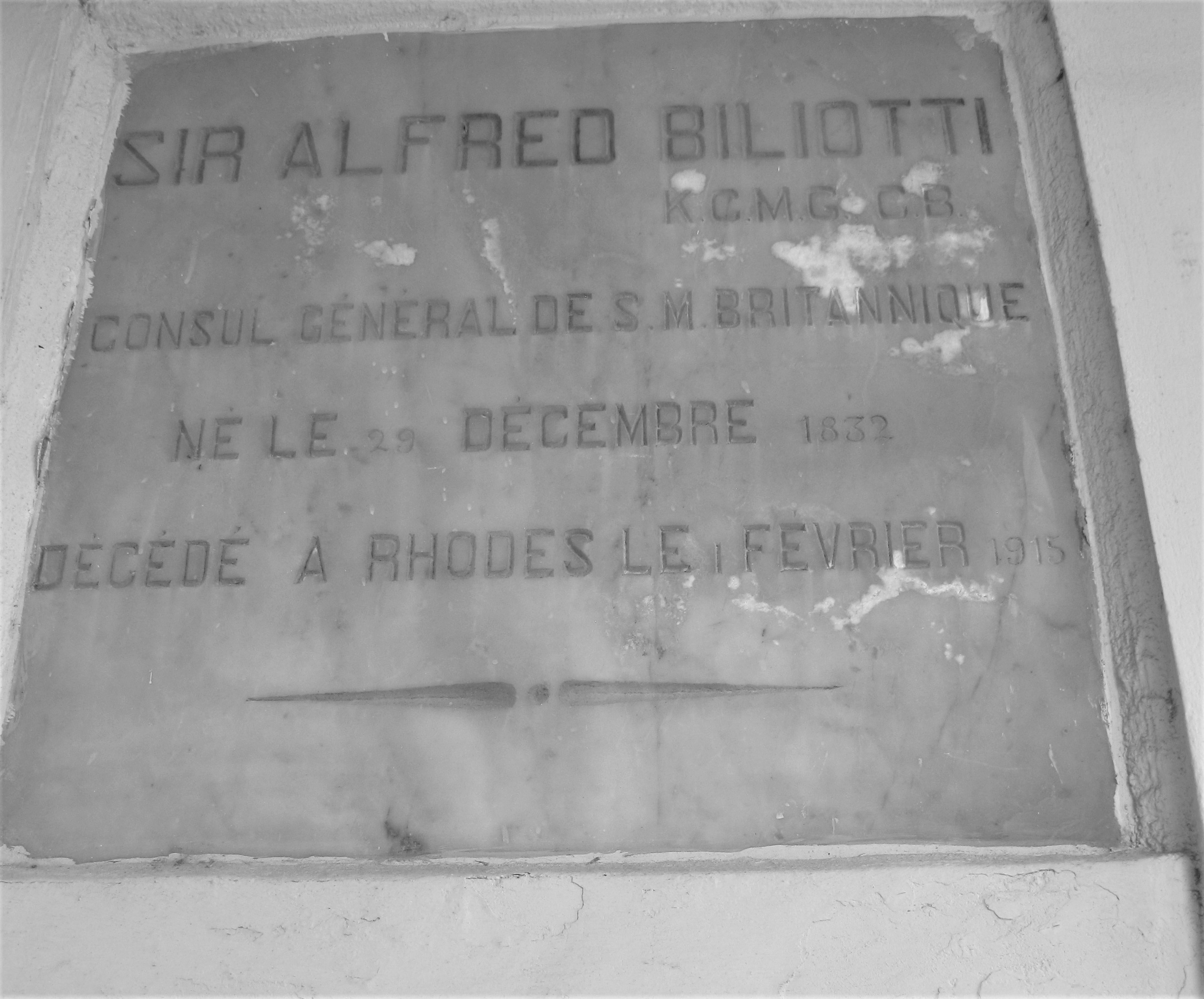 The gravestone of diplomat Sir Alfred Biliotti in the Biliotti family mausoleum, Catholic Cemetery, Rhodes, Greece.